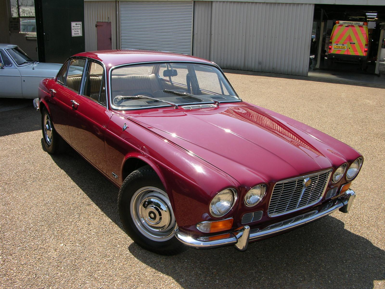 1970 Jaguar XJ6 4.2 Series 1